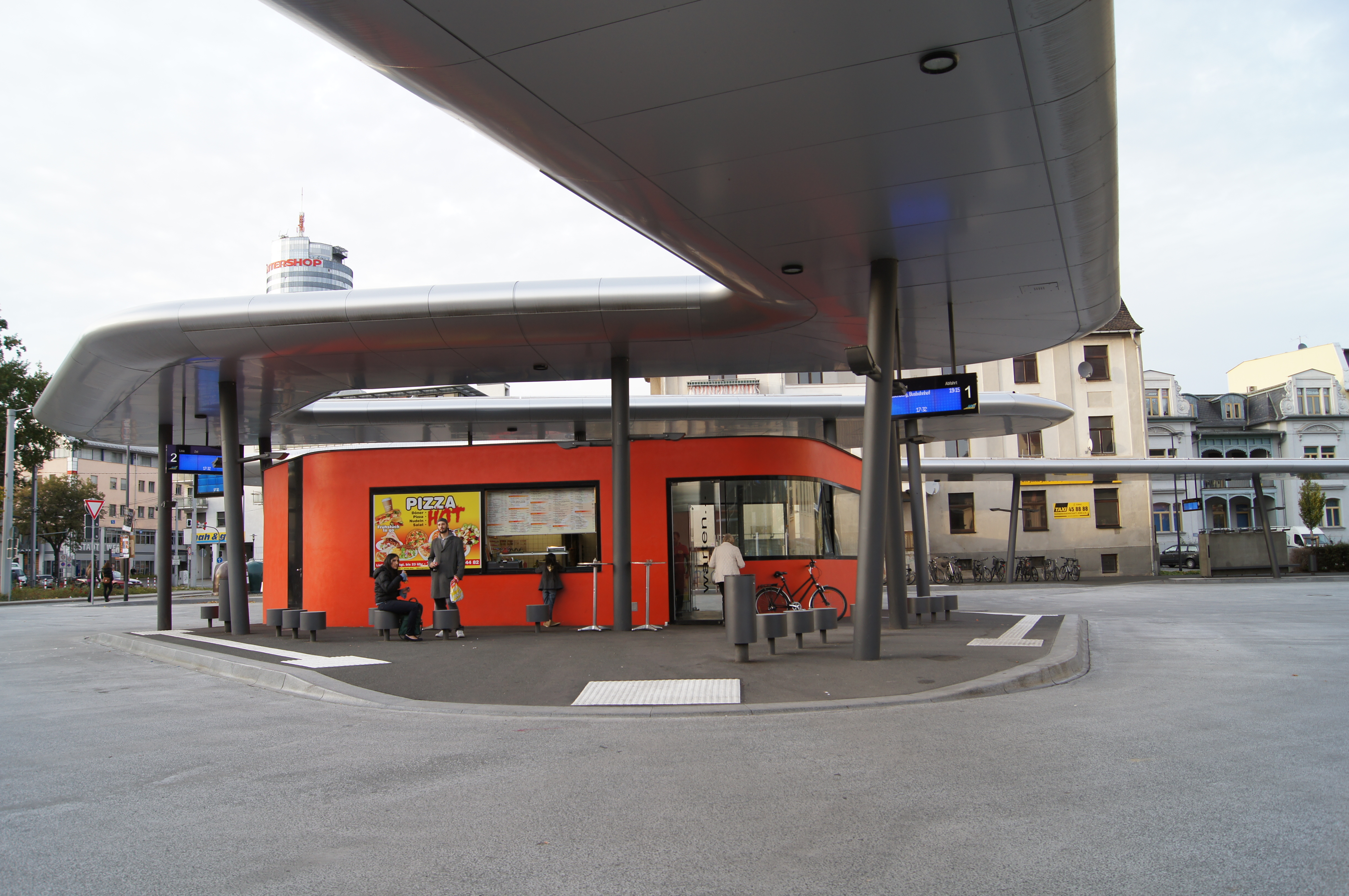 Bus terminal in Jena, Thuringia, Germany